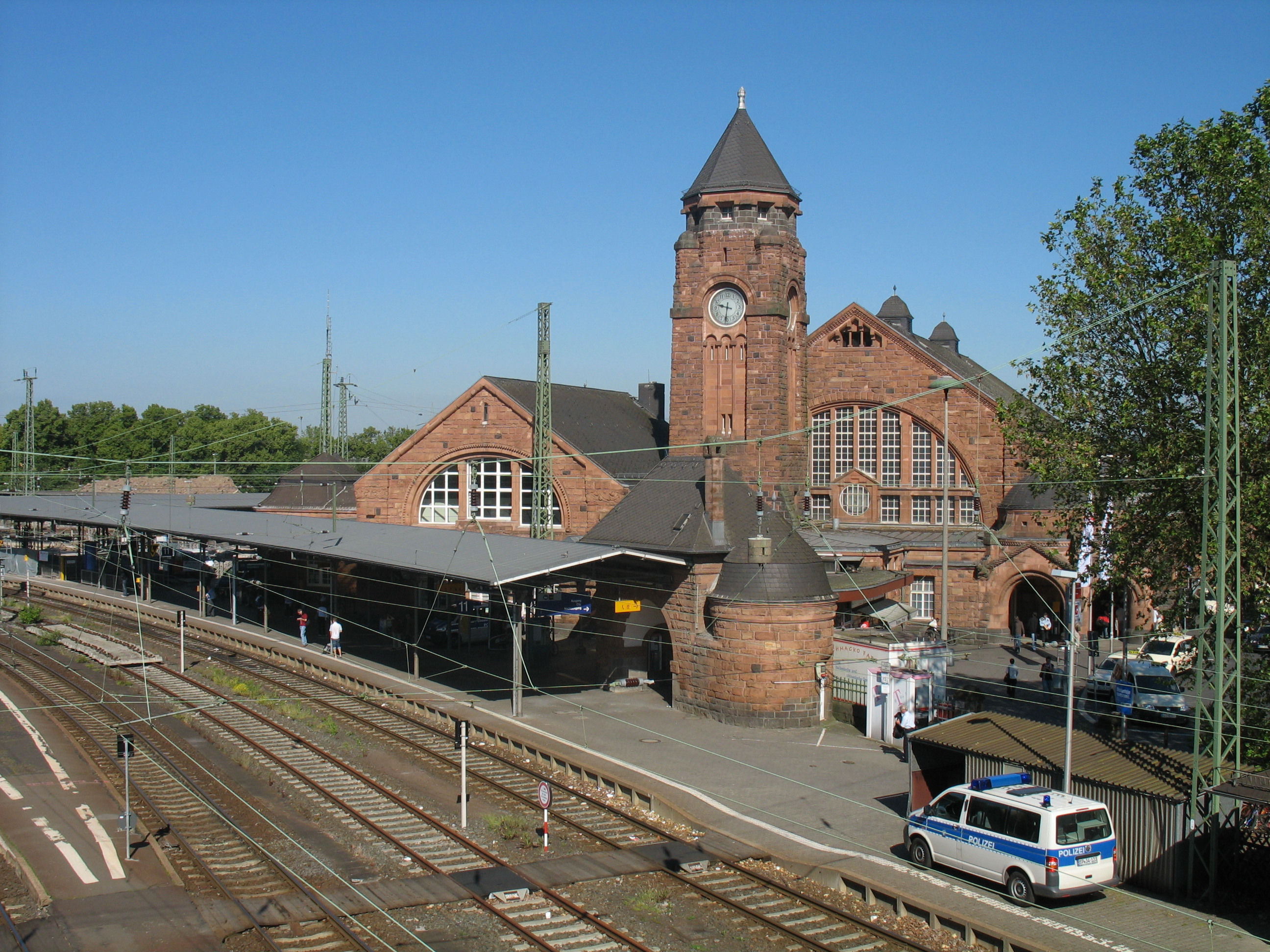 Giessen railway station seen from the eastern overpass.